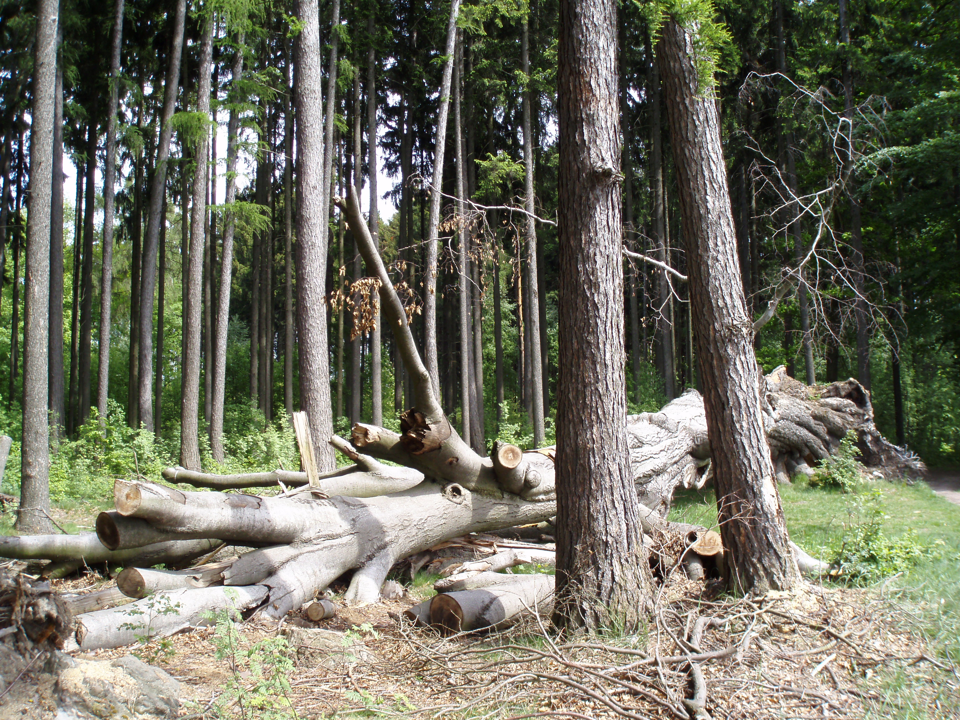 Špetlův buk (protected tree in Slatina nad Úpou) after storm